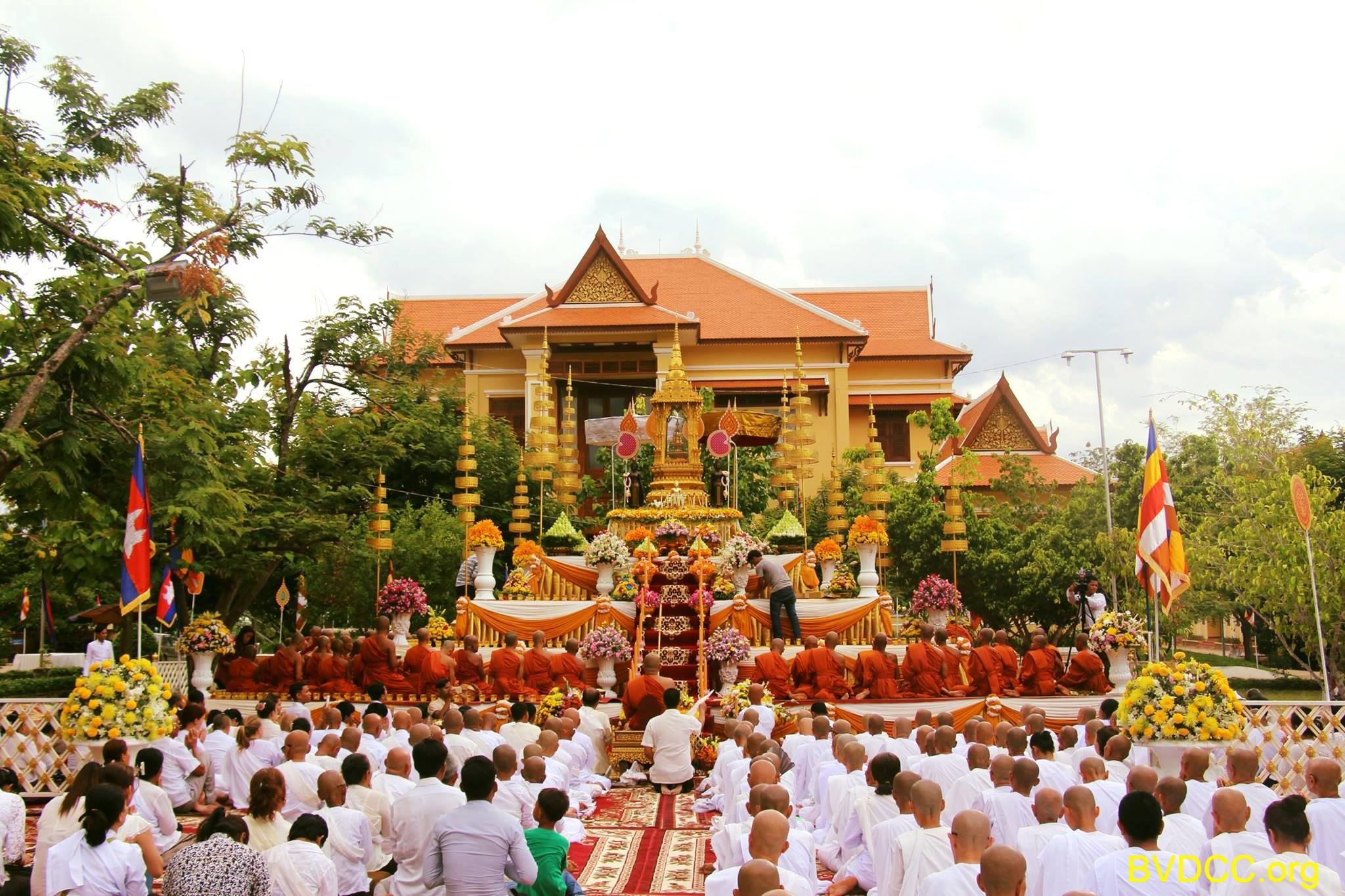 Pisak Bochea at Vipassakna Dhaurak of Kingdom of Cambodia